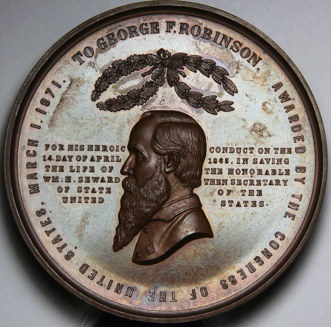 Medal given to George Robinson for saving the life of Secretary of State William Seward during the assassination plot of 1865